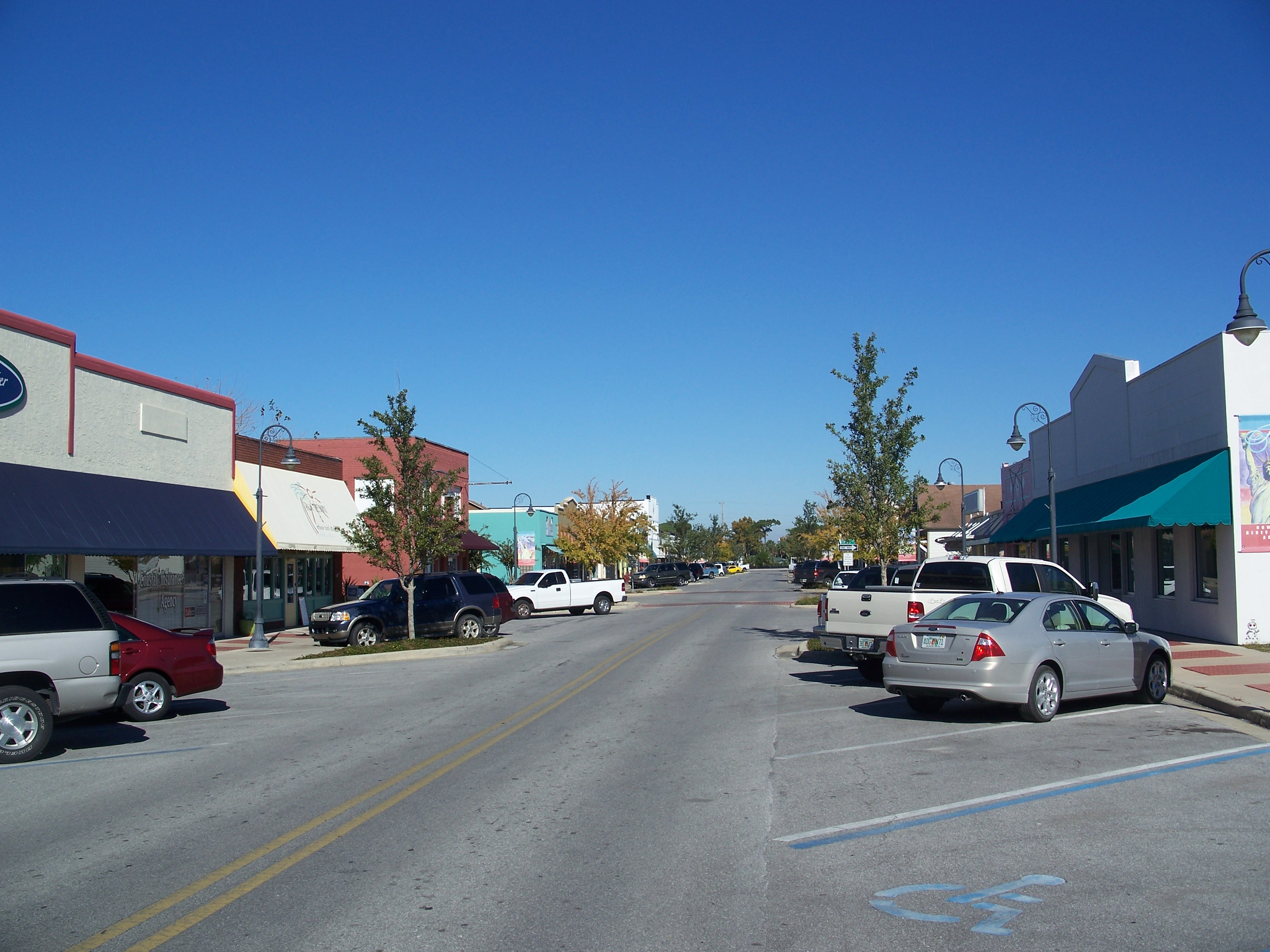 Port St. Joe, Florida: Looking north on Reid Avenue, the historic downtown area